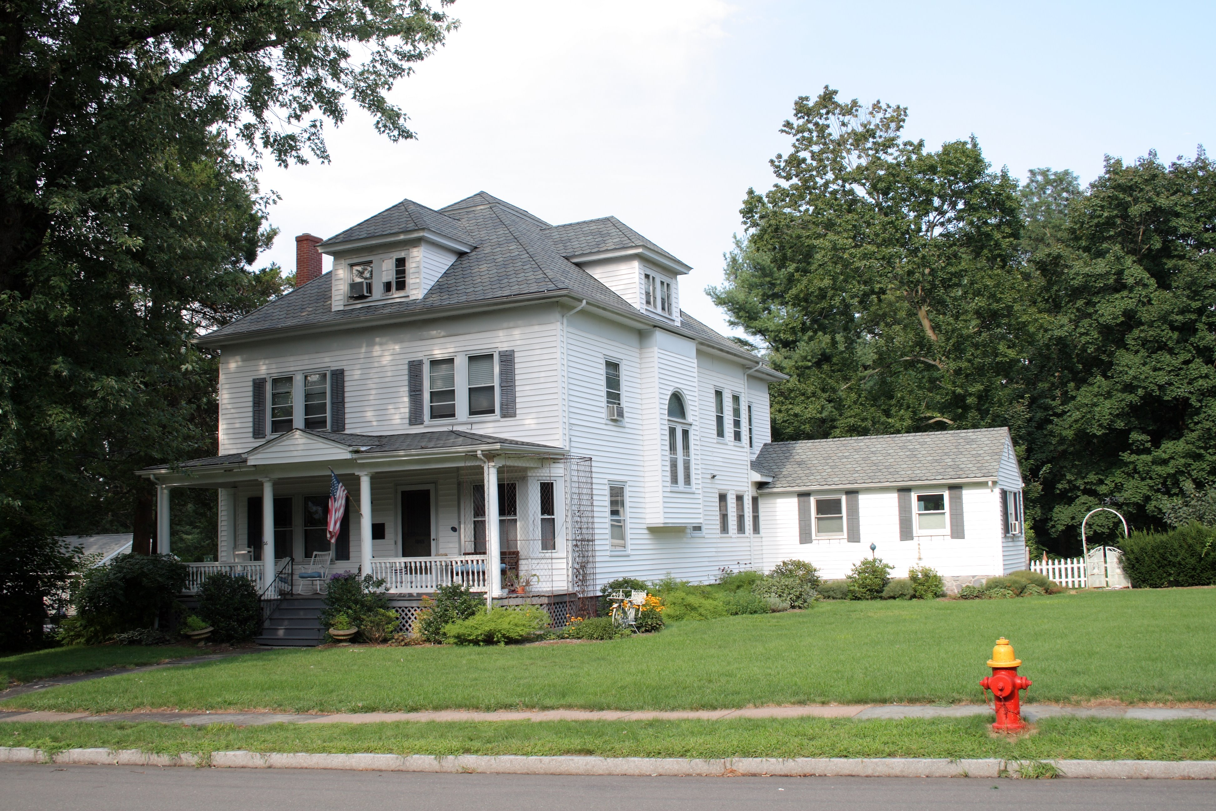 The Edward W. Morley House, 26 Westland Ave., a National Historic Landmark in West Hartford, Connecticut. It was the home of American chemist Edward Morley.